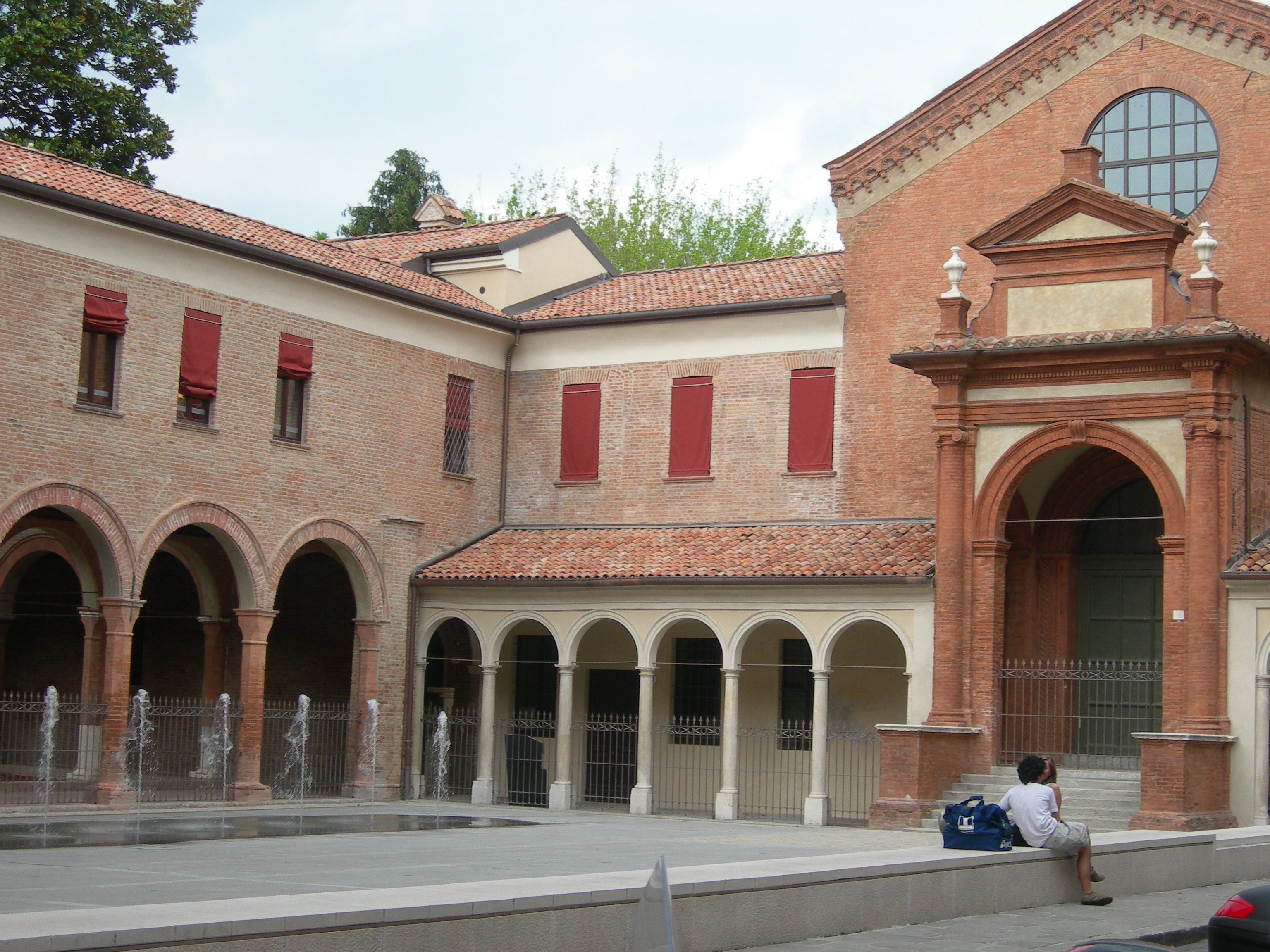 St. Anna square in Ferrara, Italy